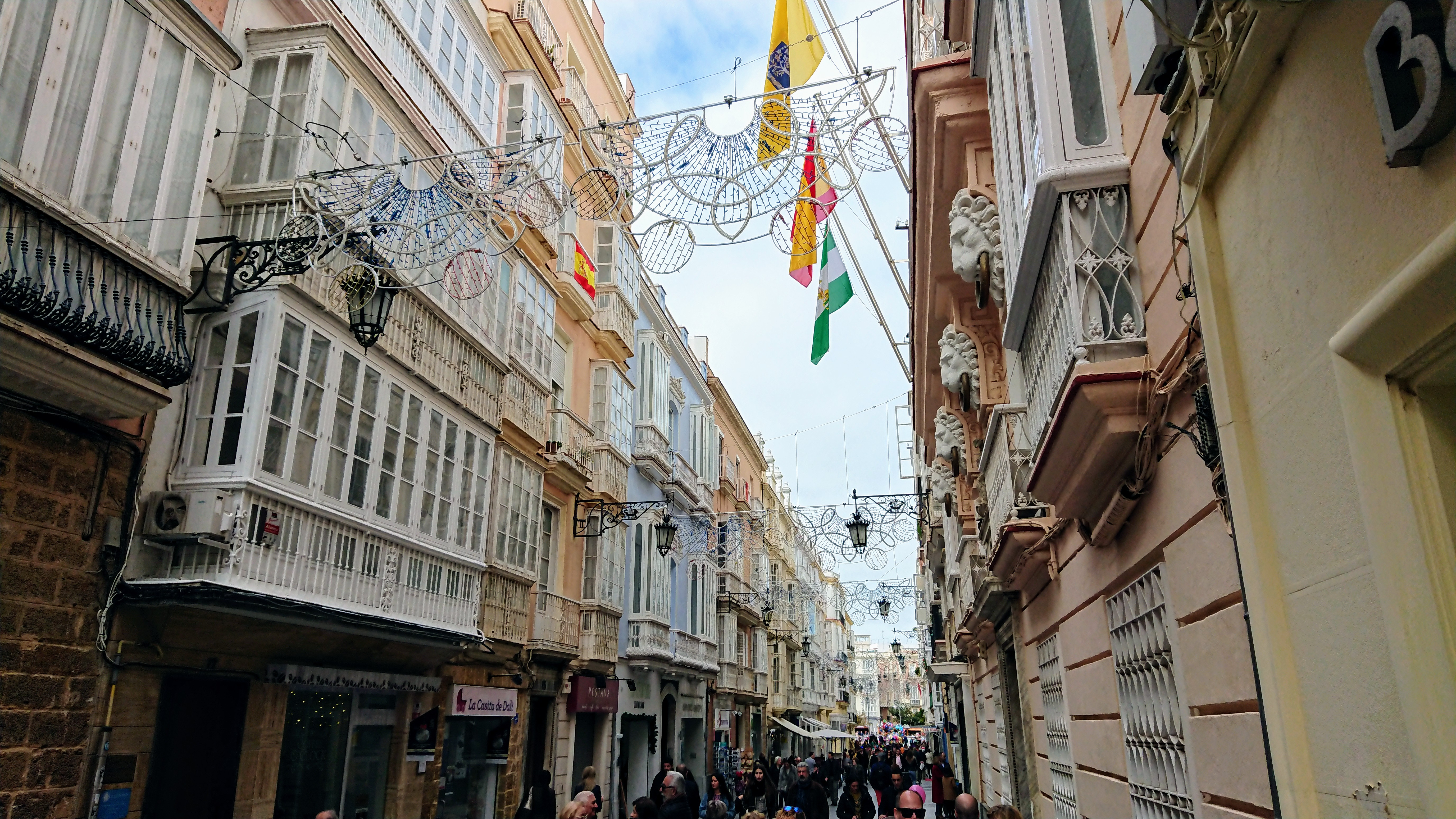 Calle Ancha, Cadiz (Spain)